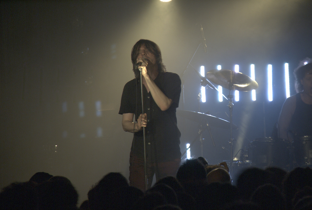 The Young Gods